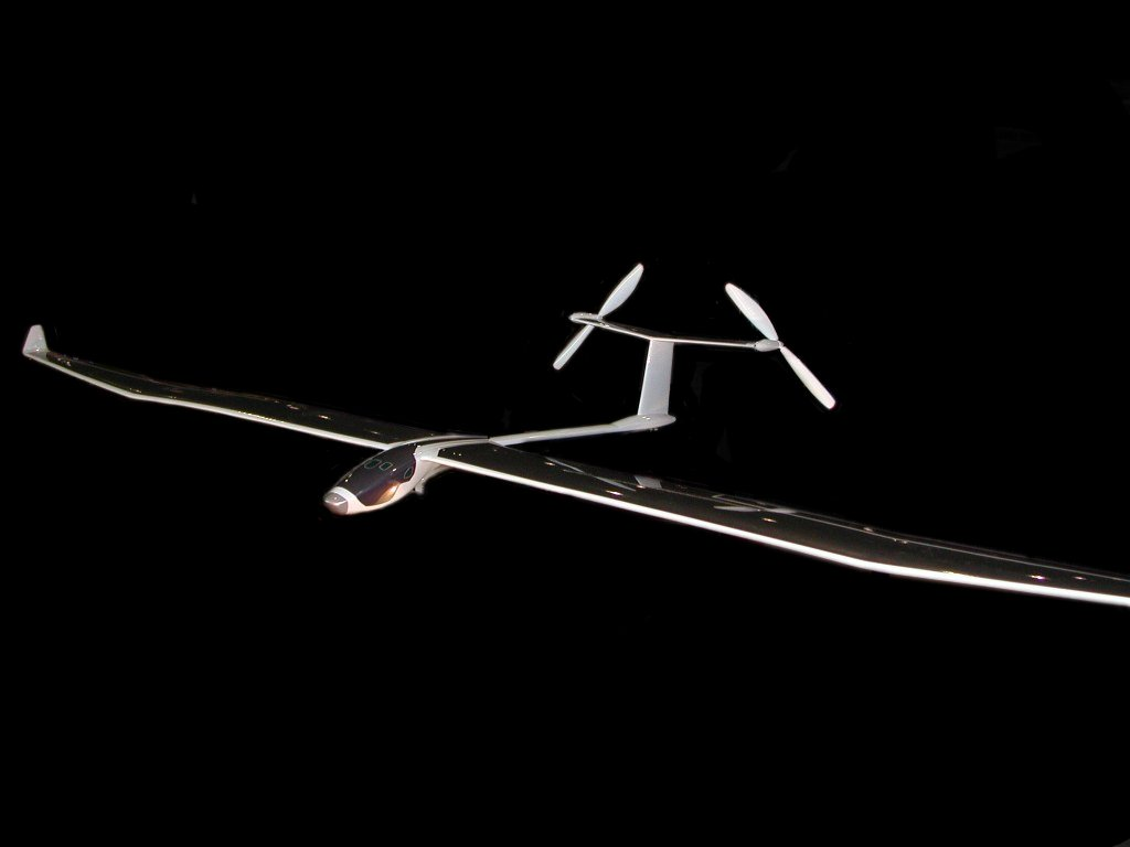 Piccards Project "Solar Impulse" at an exibibition in Geneva in April 2004